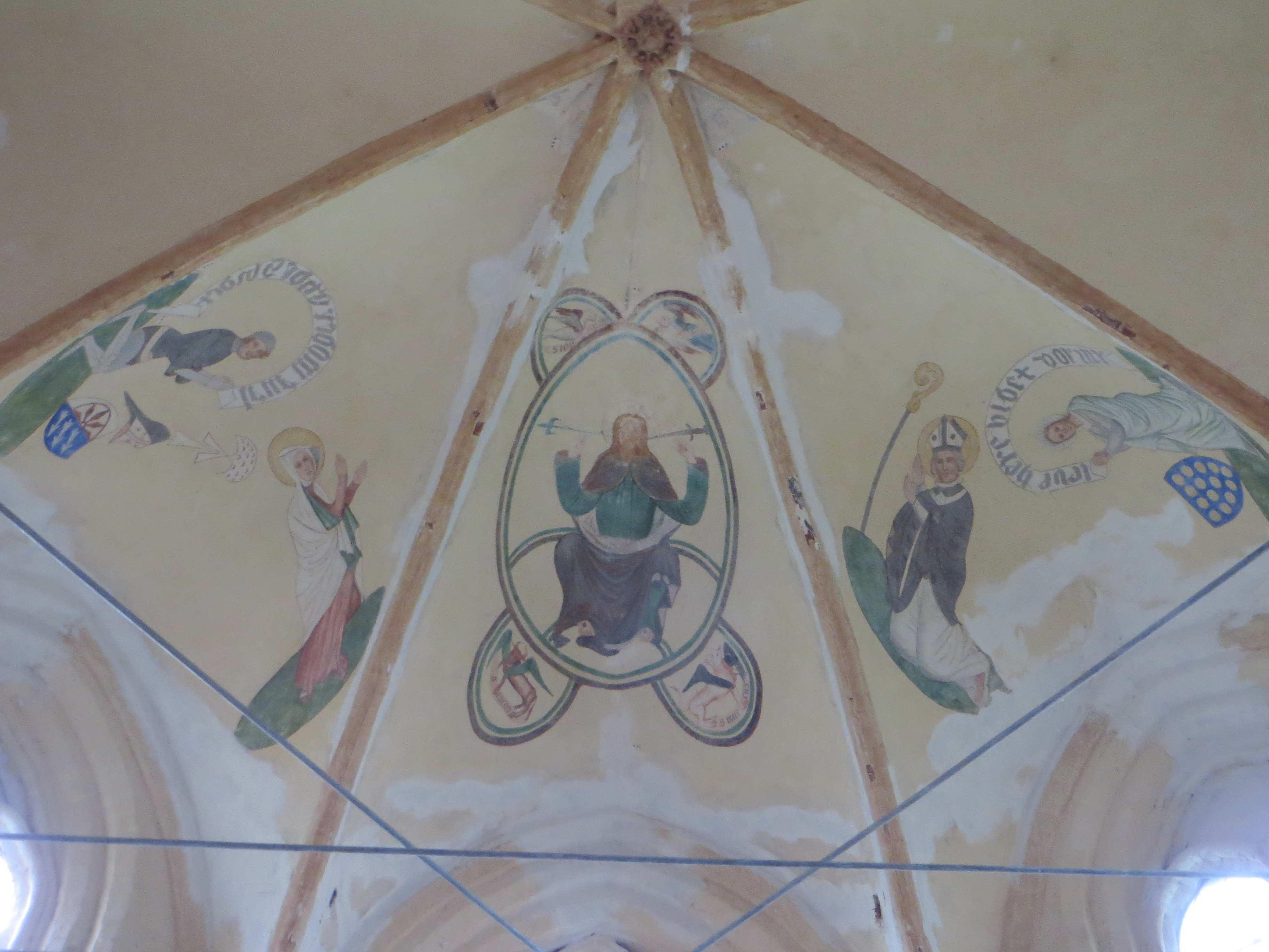 Kirche Zurow